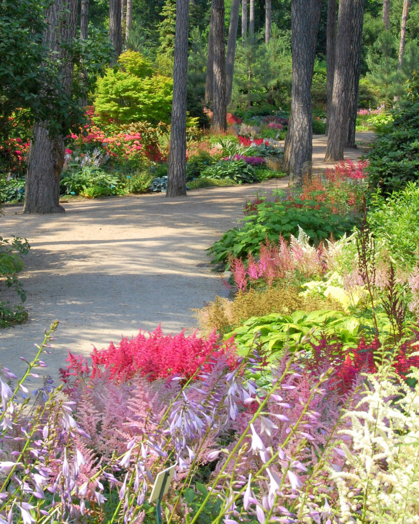 Parc Floral of Paris, Paris, France